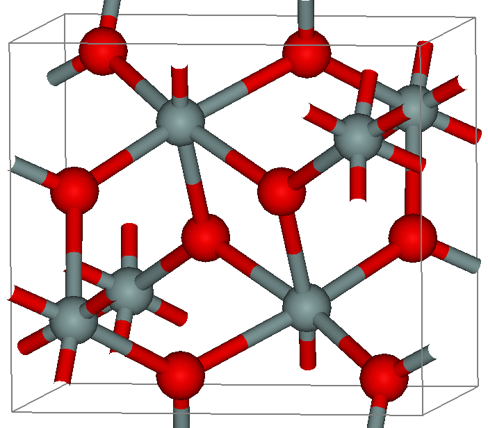 Seifertite (SiO2). Red atoms are silicon